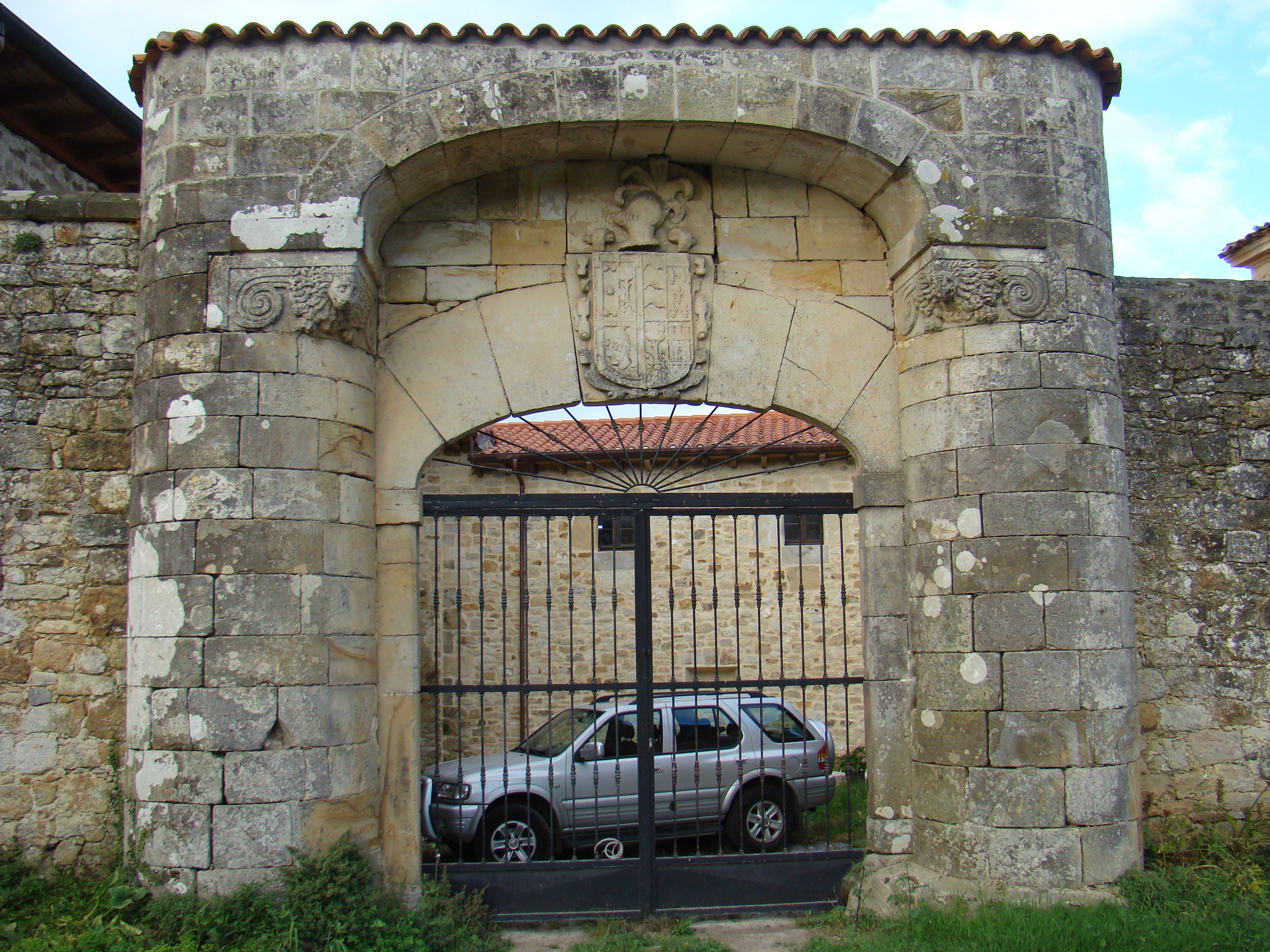 Large entrance of the house belonging to the family Valle-Rozadilla in the suburb of "El Cristo" (The Christ) in Bárcena de Cicero (Cantabria, Spain).